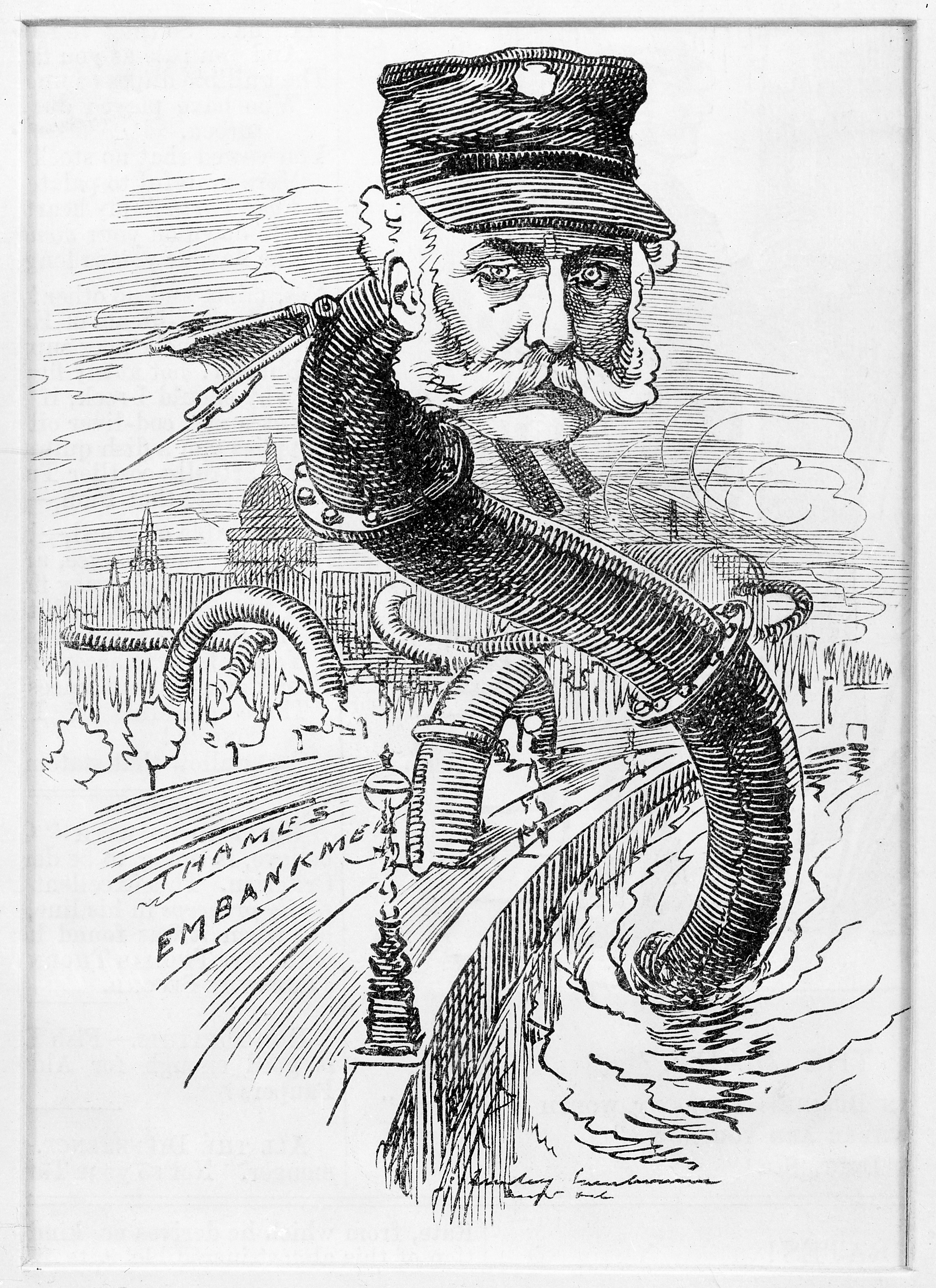 Portrait of Sir Joseph William Bazalgette (1819-1891) Wellcome Images Keywords: thames embankment; Joseph William Bazalgette; engineer